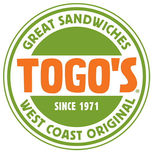 Current Togo's Brand Logo circa 2016